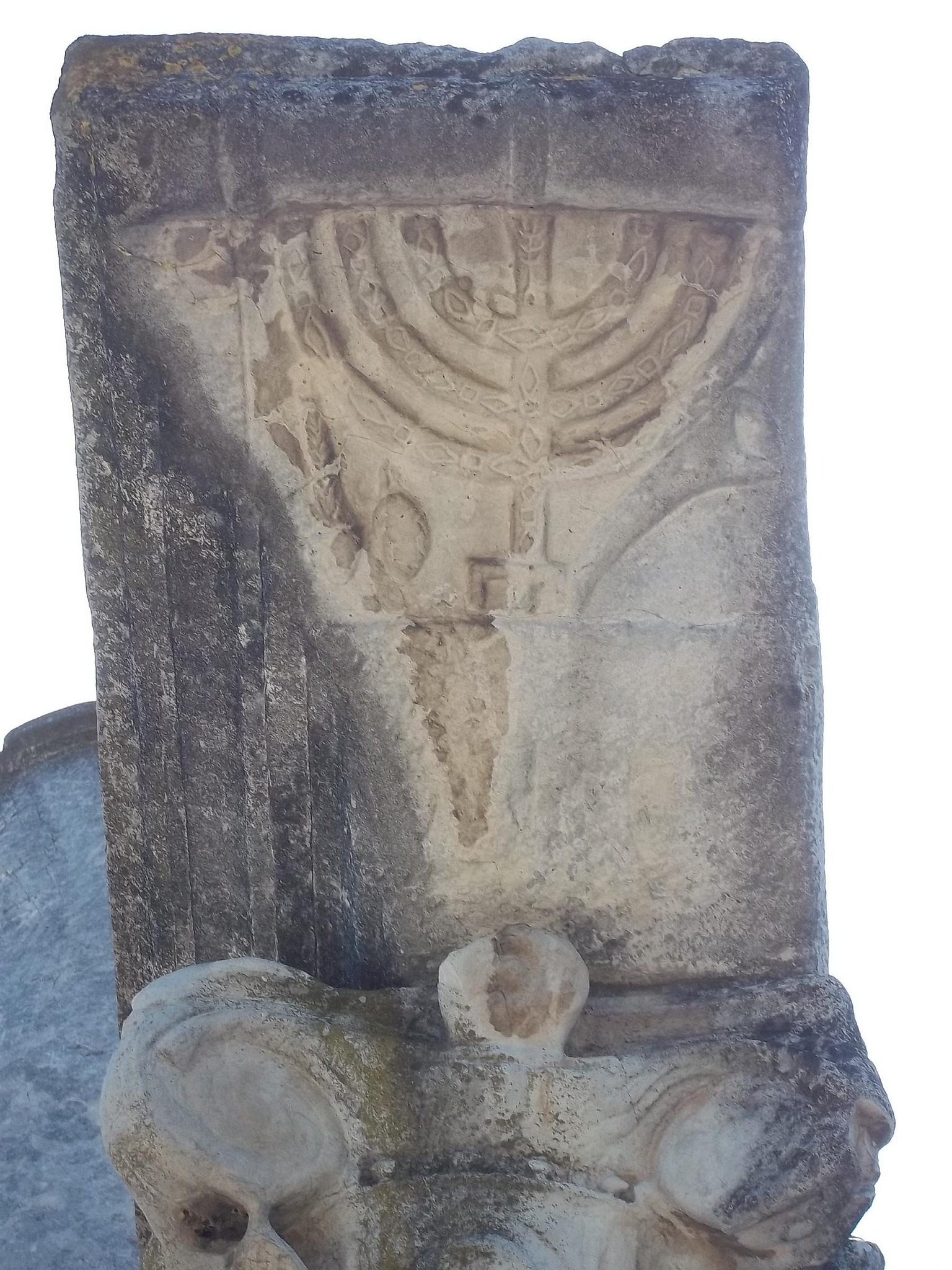 Ostia Antica Synagogue Menora